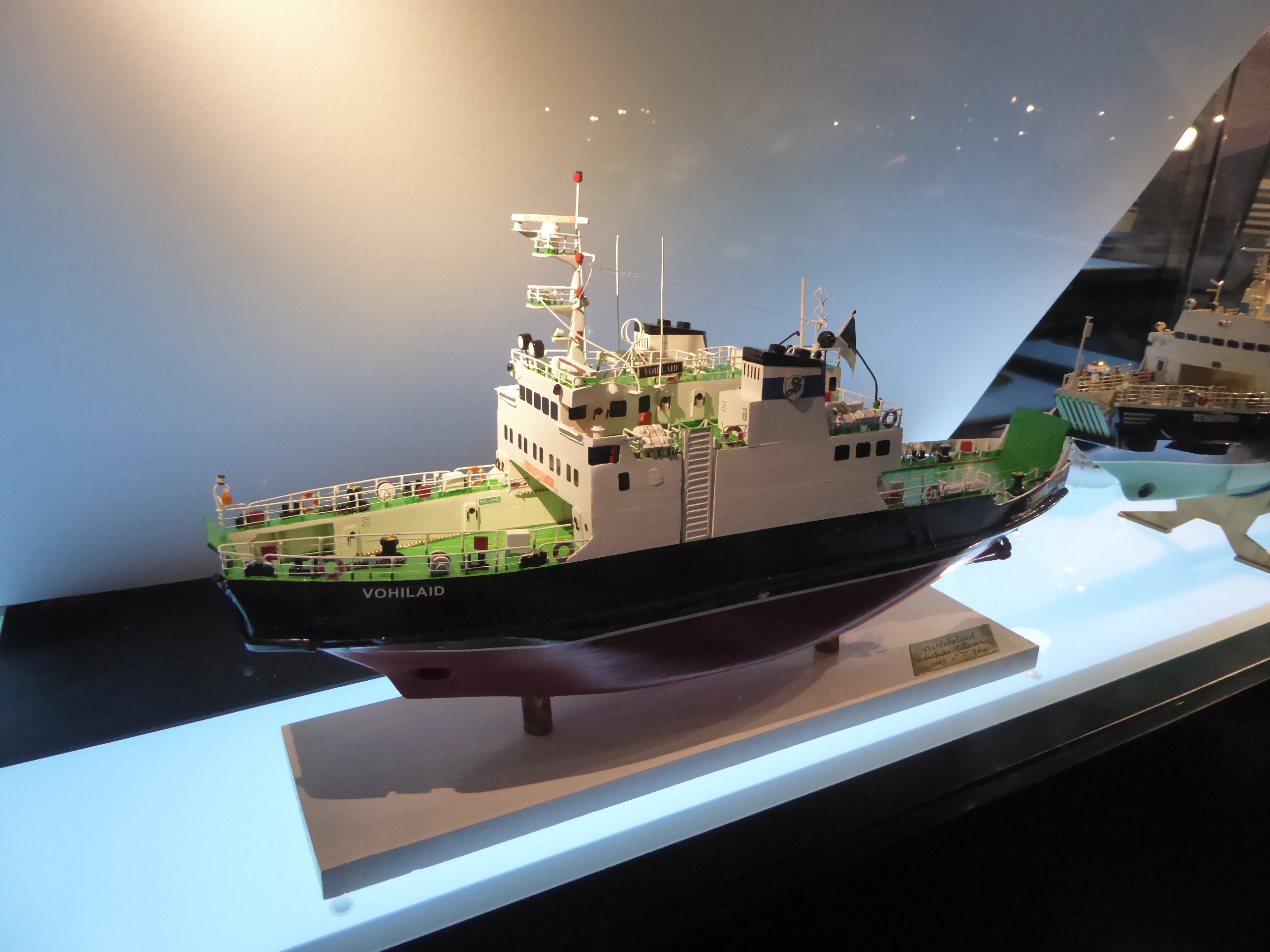 Model of the ferry Vohilaid. The model is in scale 1:100 and build in 1980-1985. The model was featured in the Estonian Maritime Museum as a part of a special exhibition about 100 years of Estonian ships.